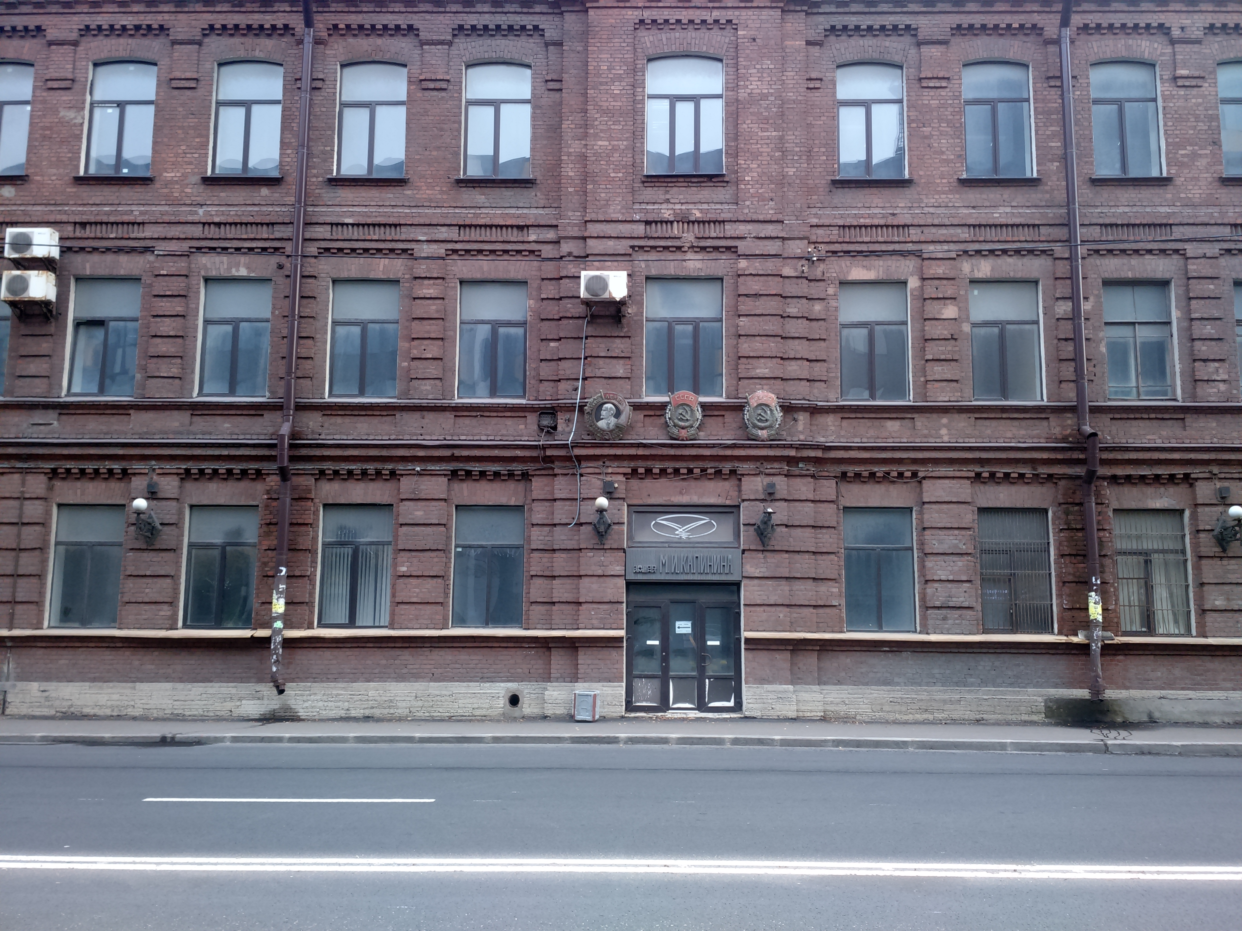 The entrance to the plant named after M. I. Kalinin, the Ural street in Saint-Petersburg, Russia.